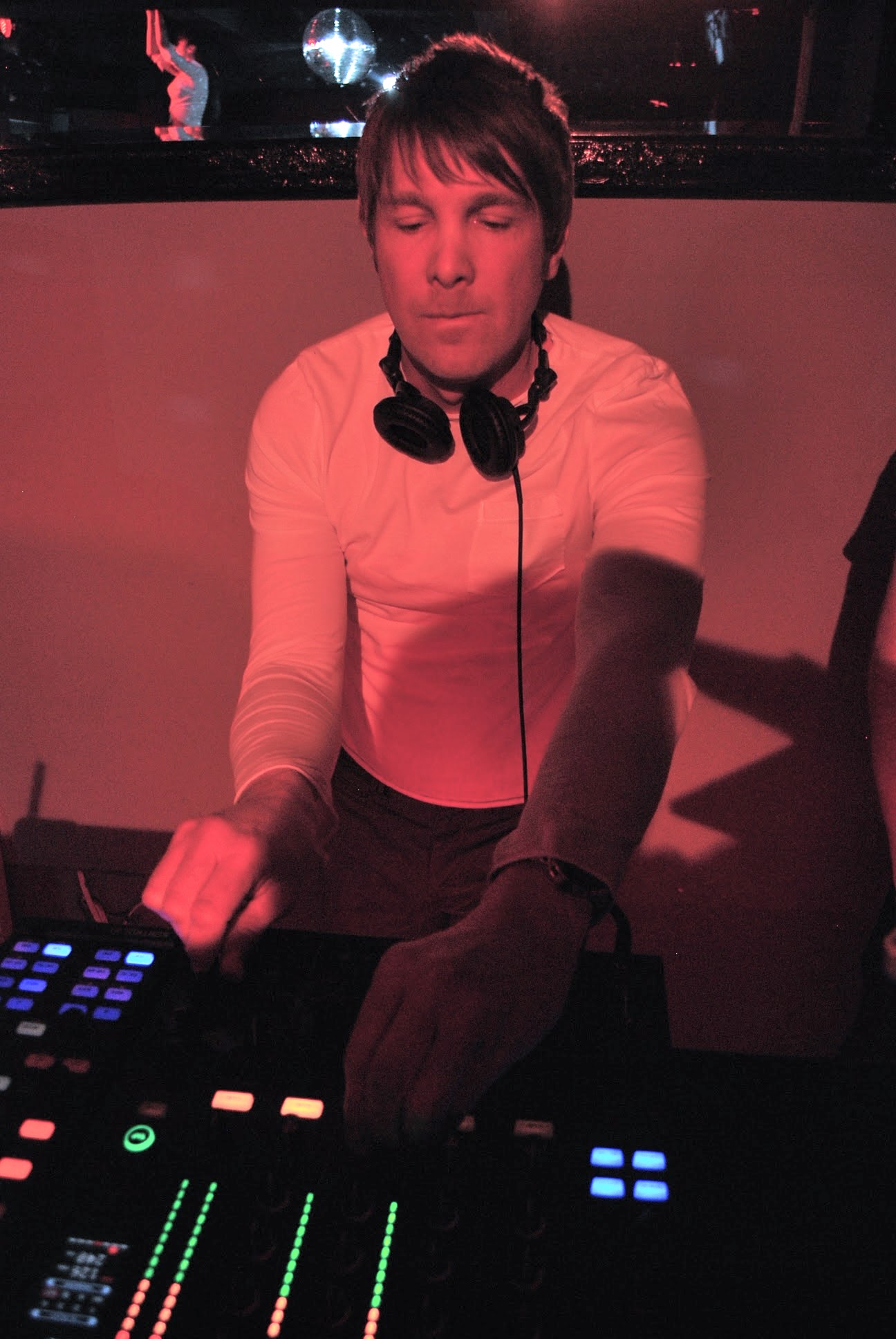 Michael Gray, a British music producer and DJ during a performance at the Hunter's club in Warsaw on 26/27th March 2011.